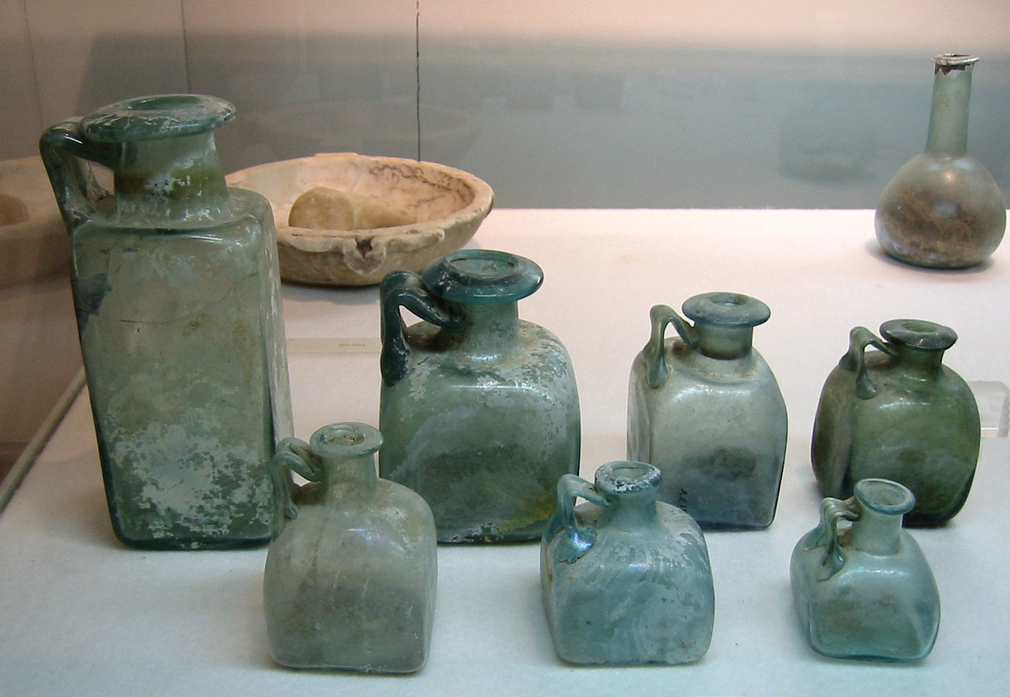 Ancient roman glassware in the museum of Boscoreale near Pompeii in Italy